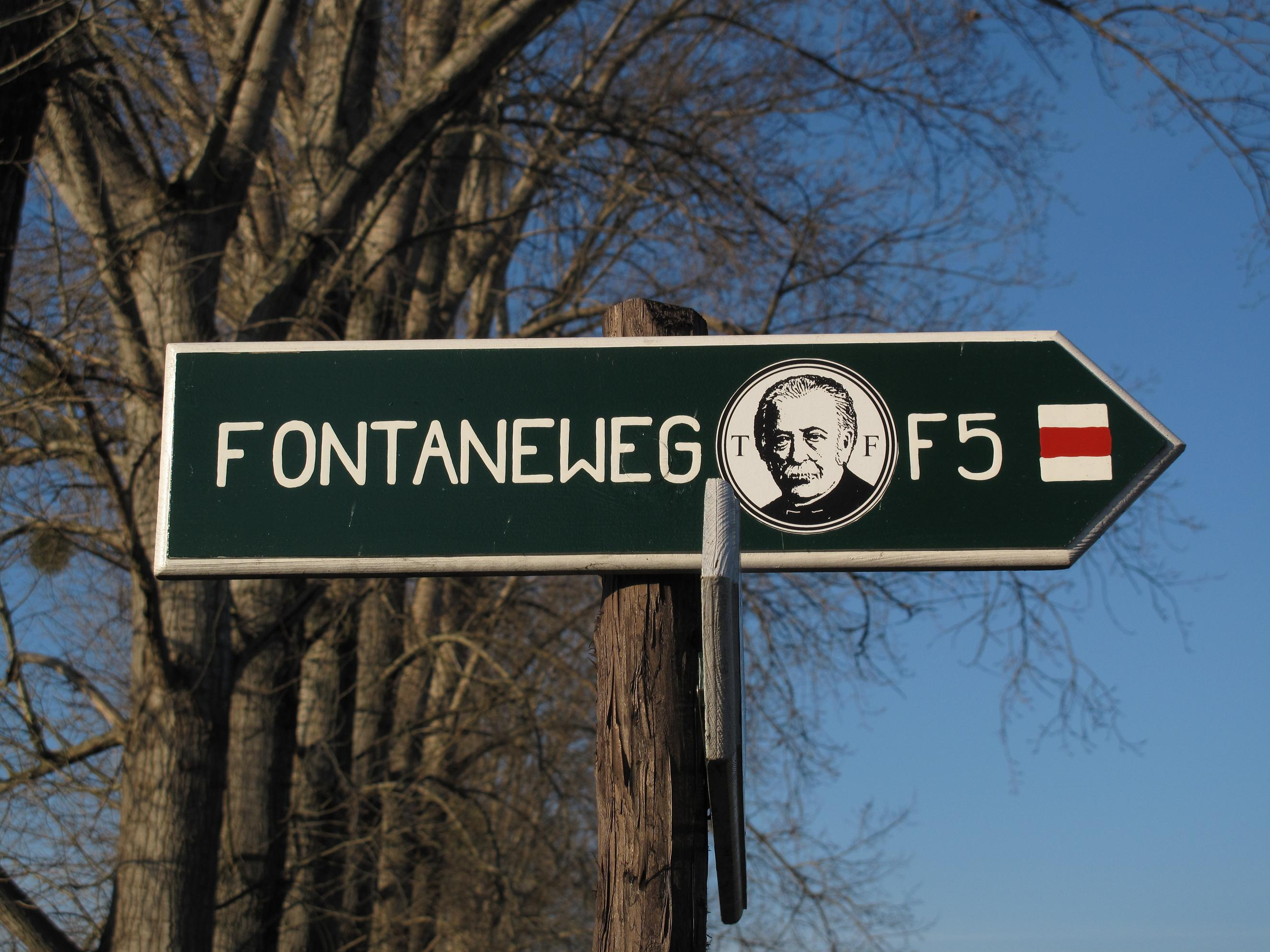 Sign of the Fontaneweg F5 at the river Nuthe in Saarmund, Brandenburg, Germany. The walk is a part of the "Fontanewanderwege", which are named after the novelist and poet Theodor Fontane and are created on the basis of Fontane's Wanderungen durch die Mark Brandenburg (1862-1882, 5 vols.). The delightfully picturesque books, in which he successfully transposed his former fascination with British historical matters to his native soil, show Fontane's fascination with the countryside surrounding Berlin, the Mark Brandenburg.